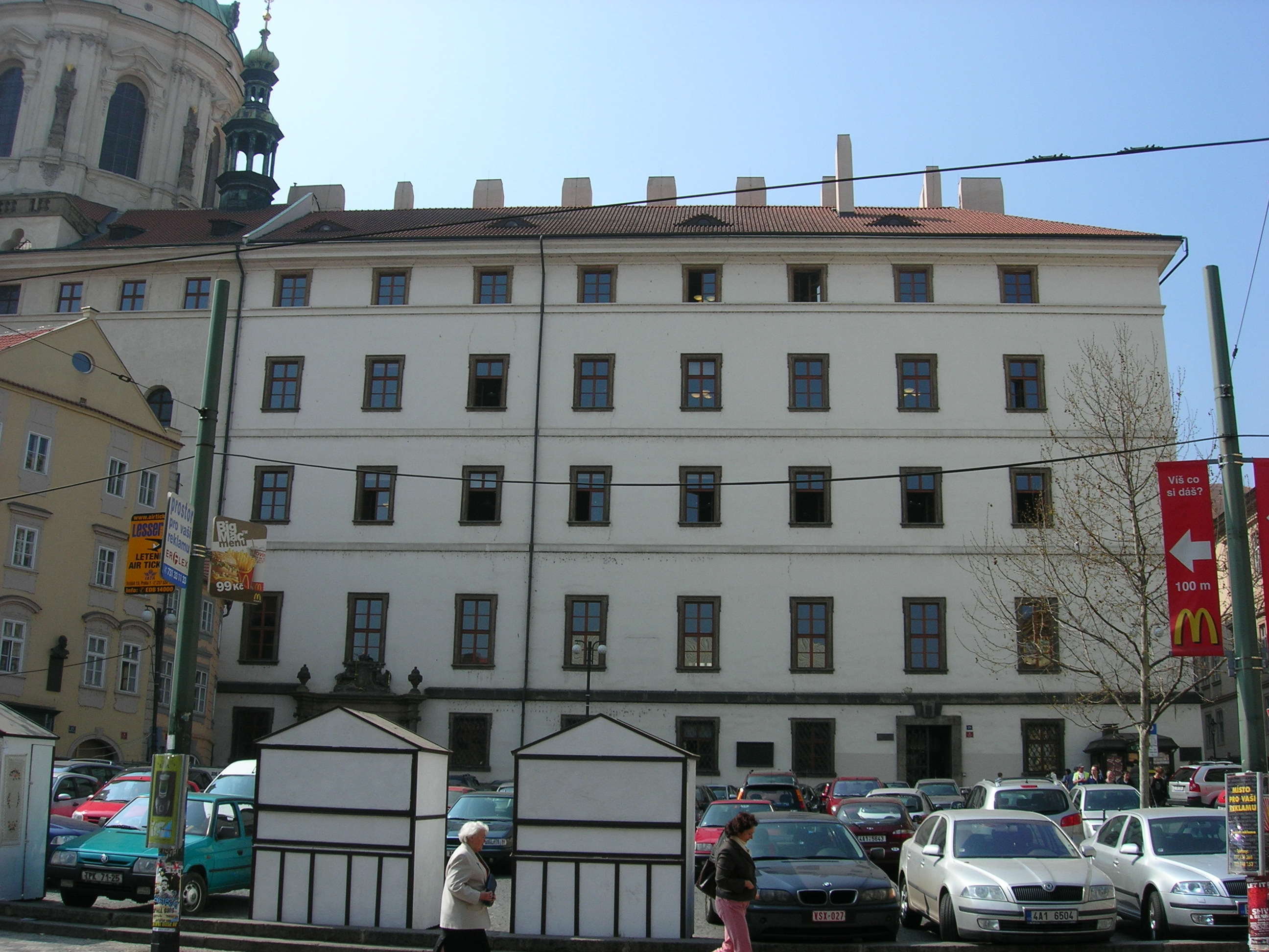 Building of Faculty of Mathematics and Physics (department of Computer Science), Charles University, Prague, Czech Republic